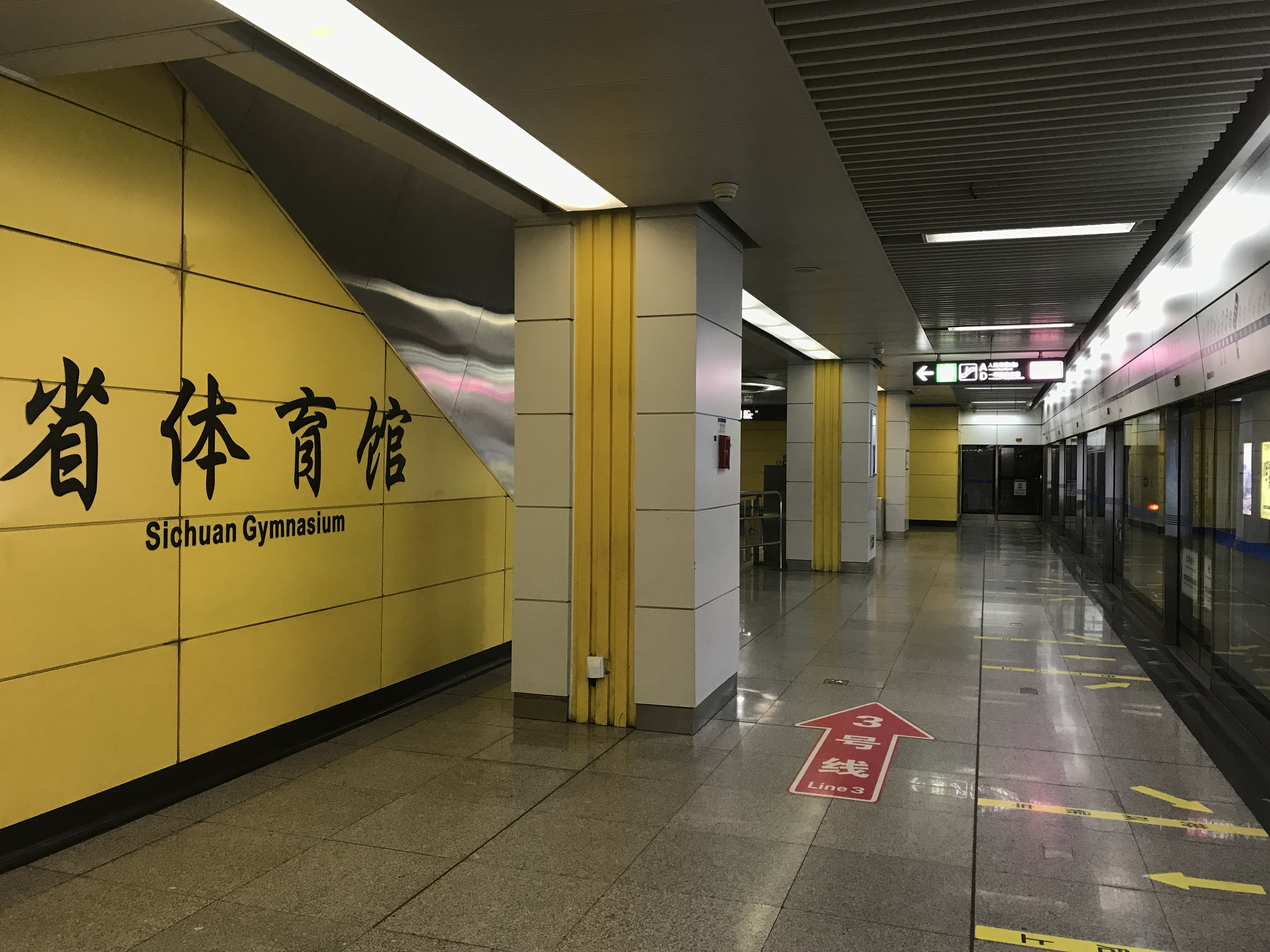 Platform of Line 1 in Sichuan Gymnasium Station, Chengdu Metro